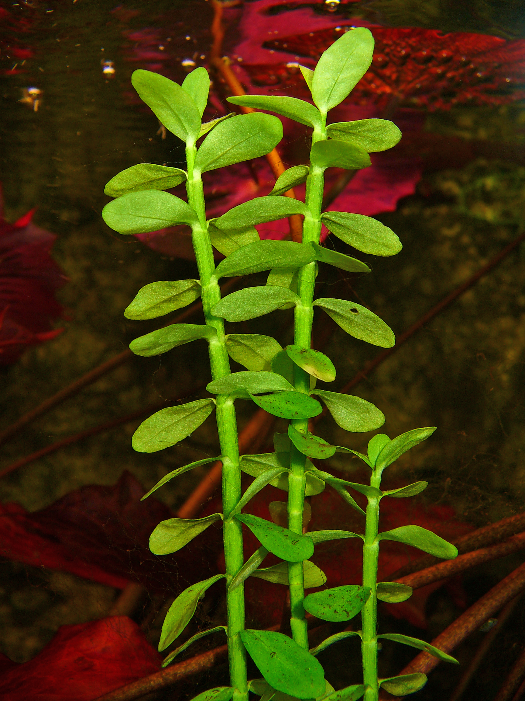 Bacopa madagascariensis, Madagascan Bacopa, habitus; Botanic Garden Eberhard Karls Universiy Tübingen, Germany.